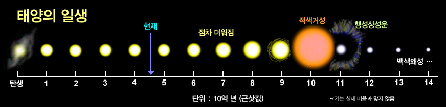 Illustration of the life-cycle of the Sun.